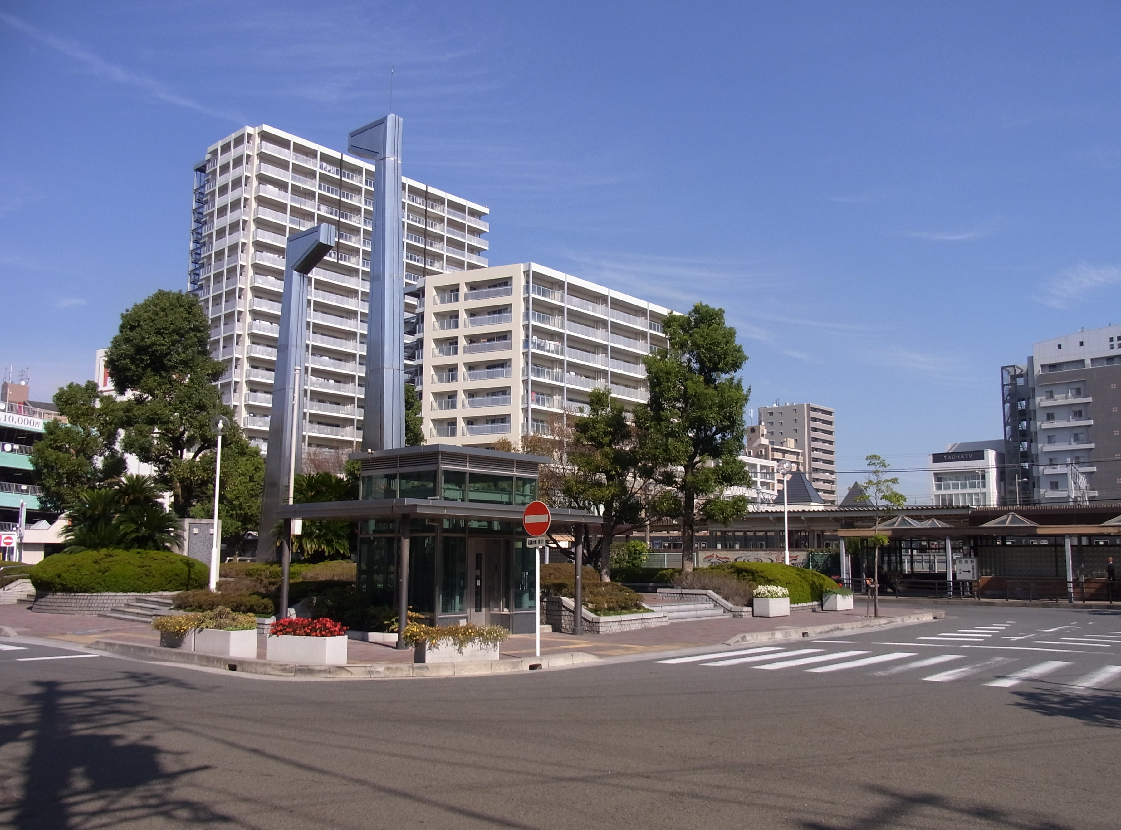 Meitetsu Iwakura Station west rotary